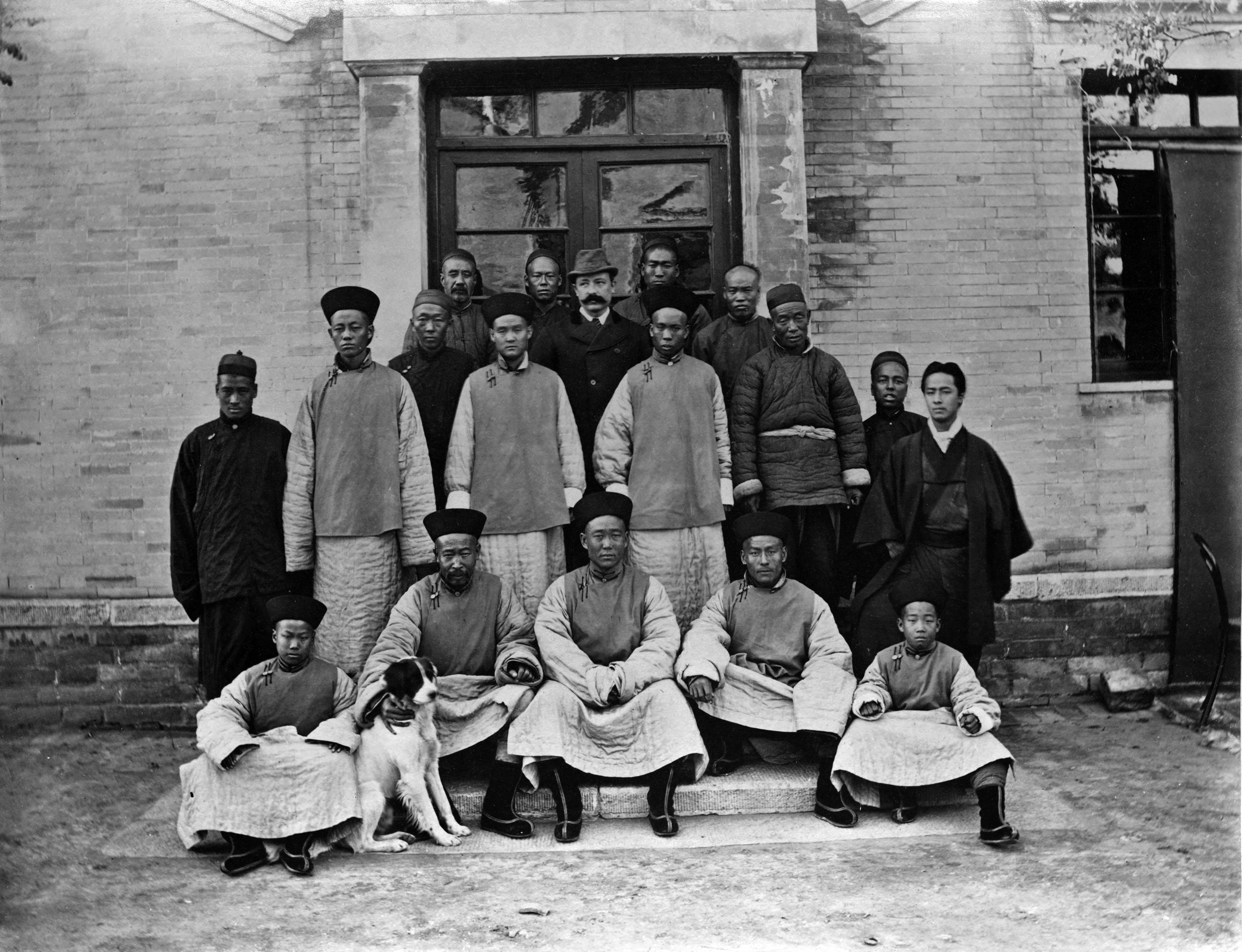 Photograph in Album of photographs of Peking and its environs.